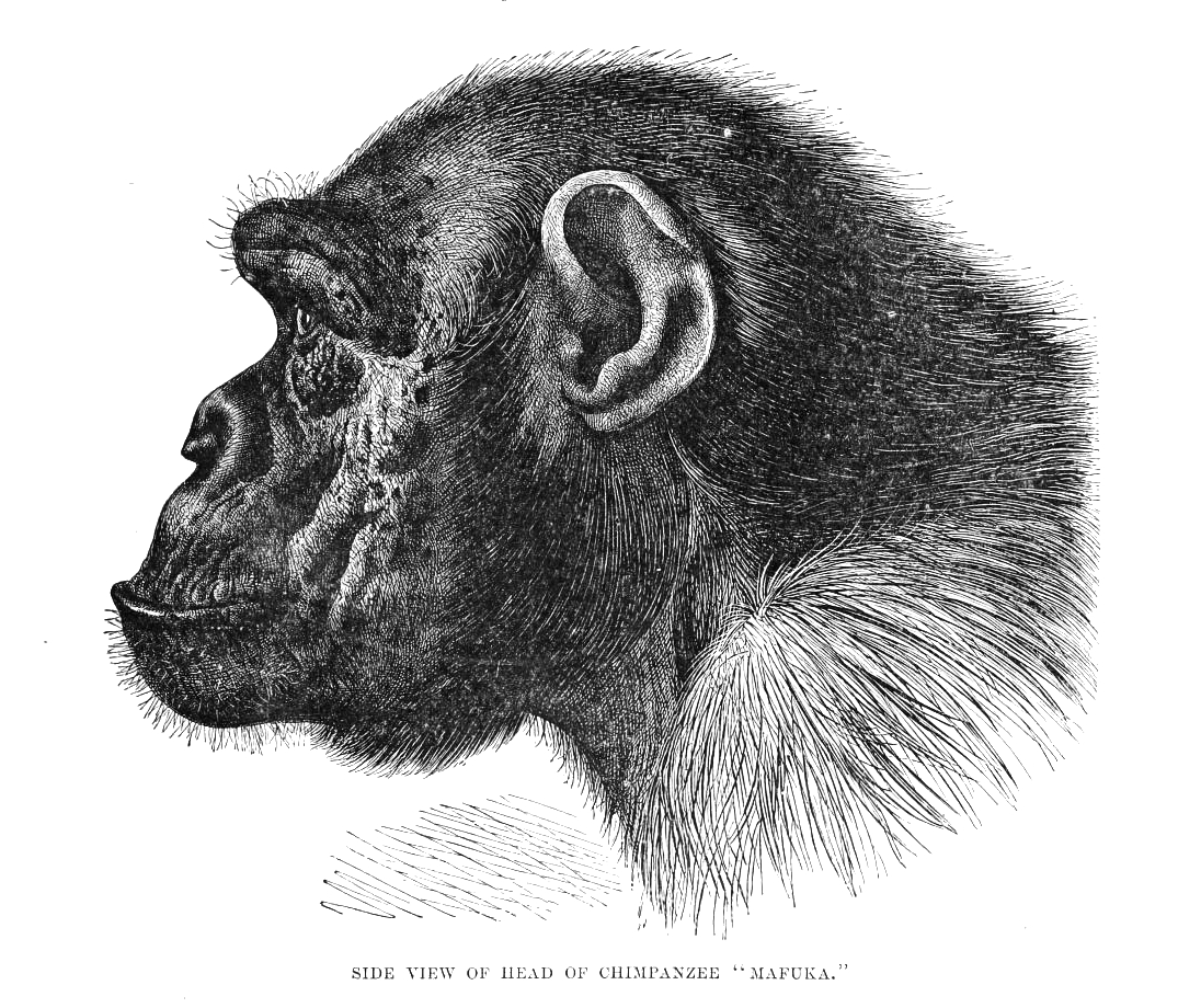 Profile of Chimpanzee Pan troglodytes! Pan troglodytes Koolakamba